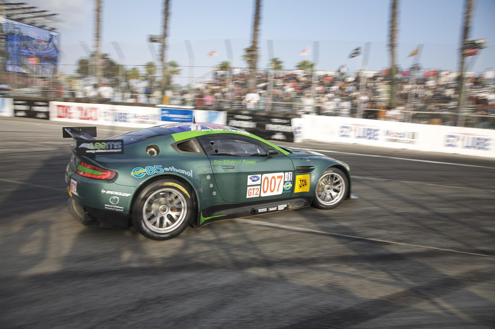 Long Beach Grand Prix ALMS IMSA 2008 Long Beach Grand Prix ALMS IMSA 2008